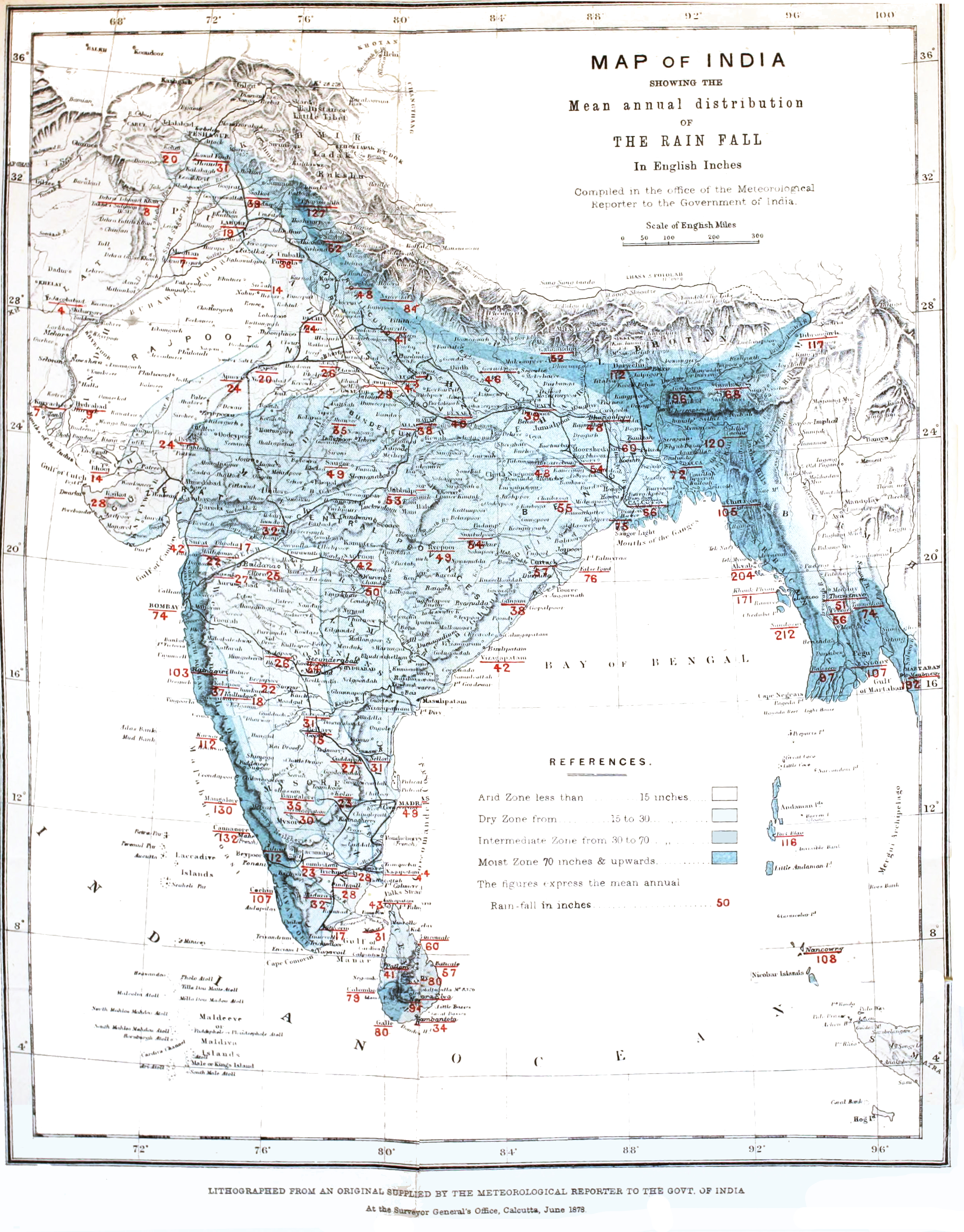 Map of mean annual rainfall in 1878